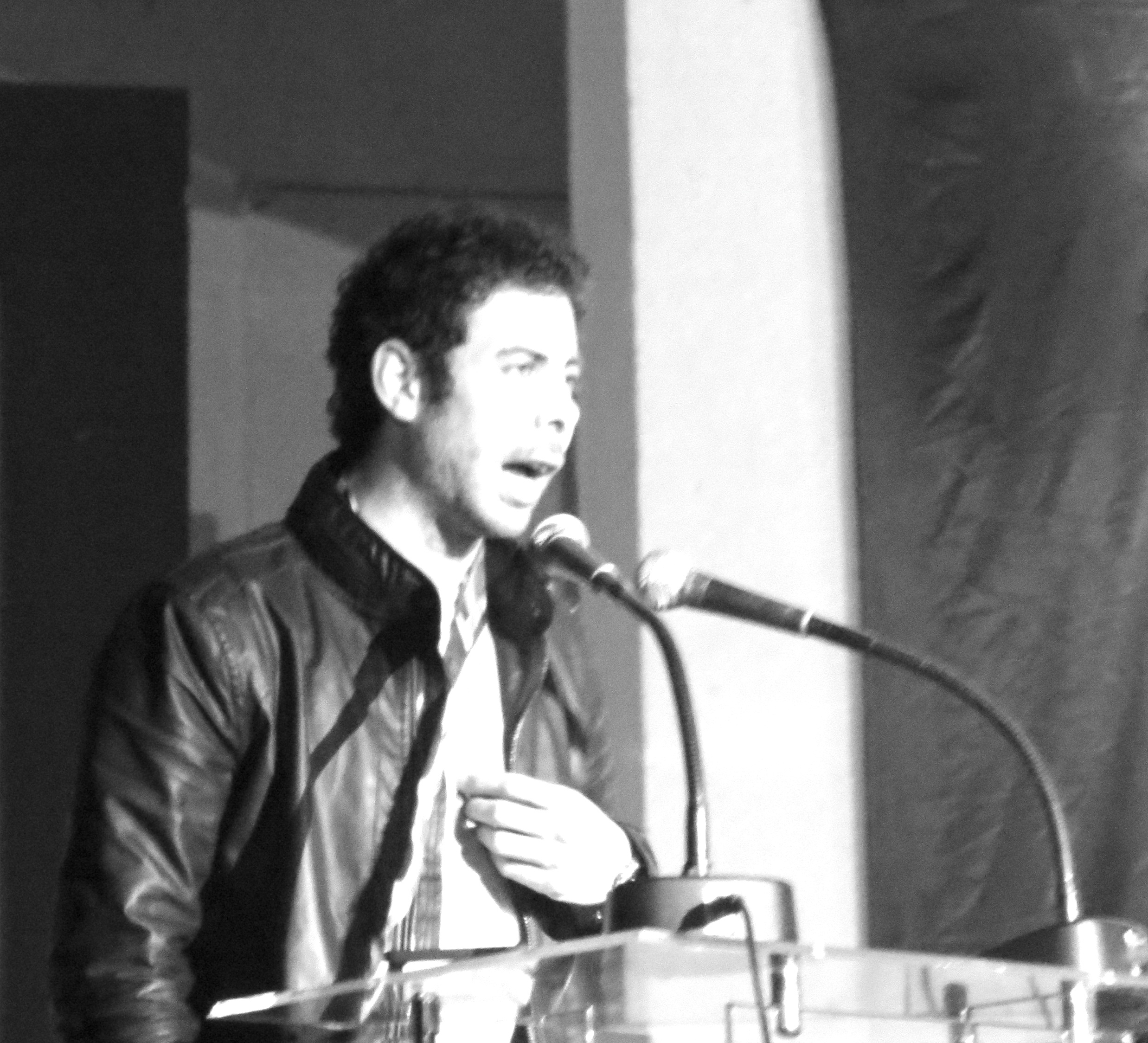 this picture of Rami Jarrah was taken in Cairo while giving a speech on for the anniversary of the Syrian uprising 15th march 2012